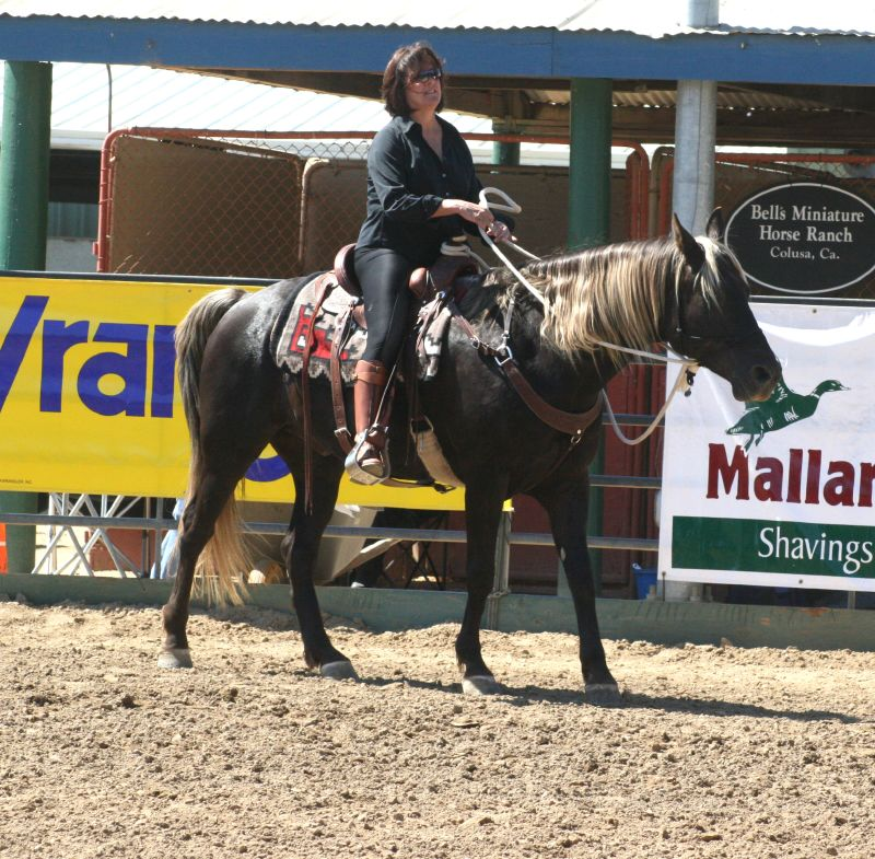 Kentucky Montain Saddle Horse